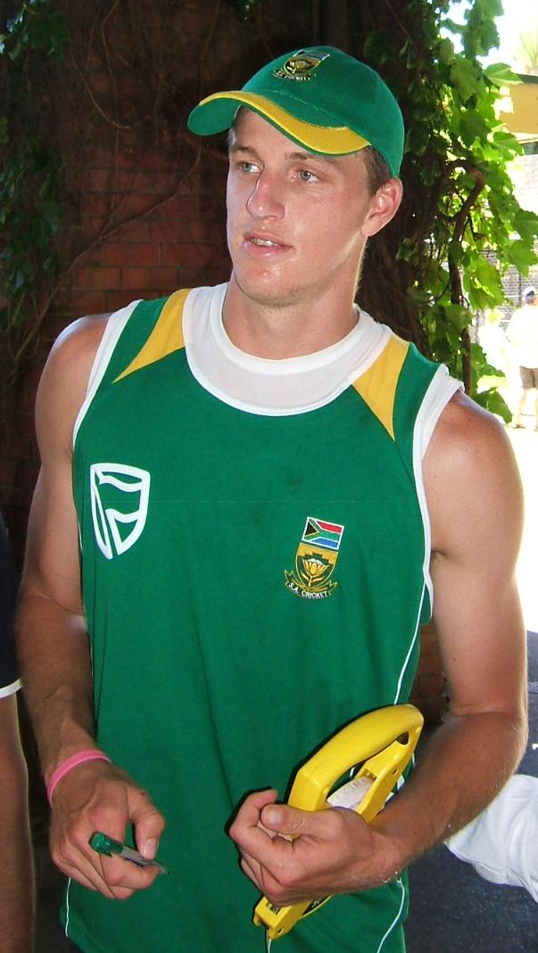 Morne Morkel at a training session at the Adelaide Oval